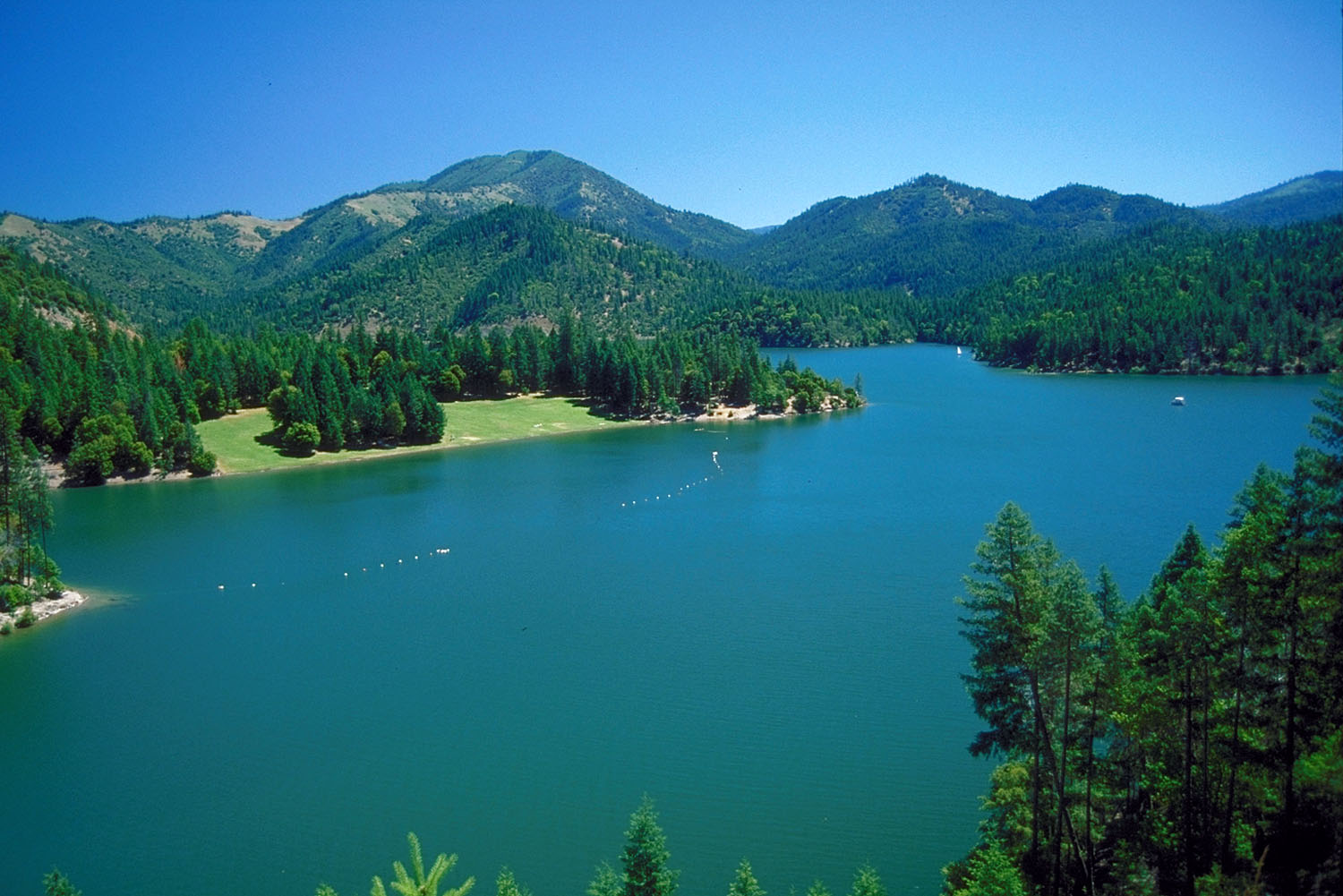 Applegate Lake on the Applegate River in Jackson County, Oregon. The lake is impounded by the Applegate Dam on the river. The lake is approximately 3.5 miles (5.6 km) long and extends upriver nearly to the California border. The lake is located approximately 23 miles (37 km) (straight line) west-southwest of Ashland, Oregon in the Siskiyou Mountains of southern Oregon.